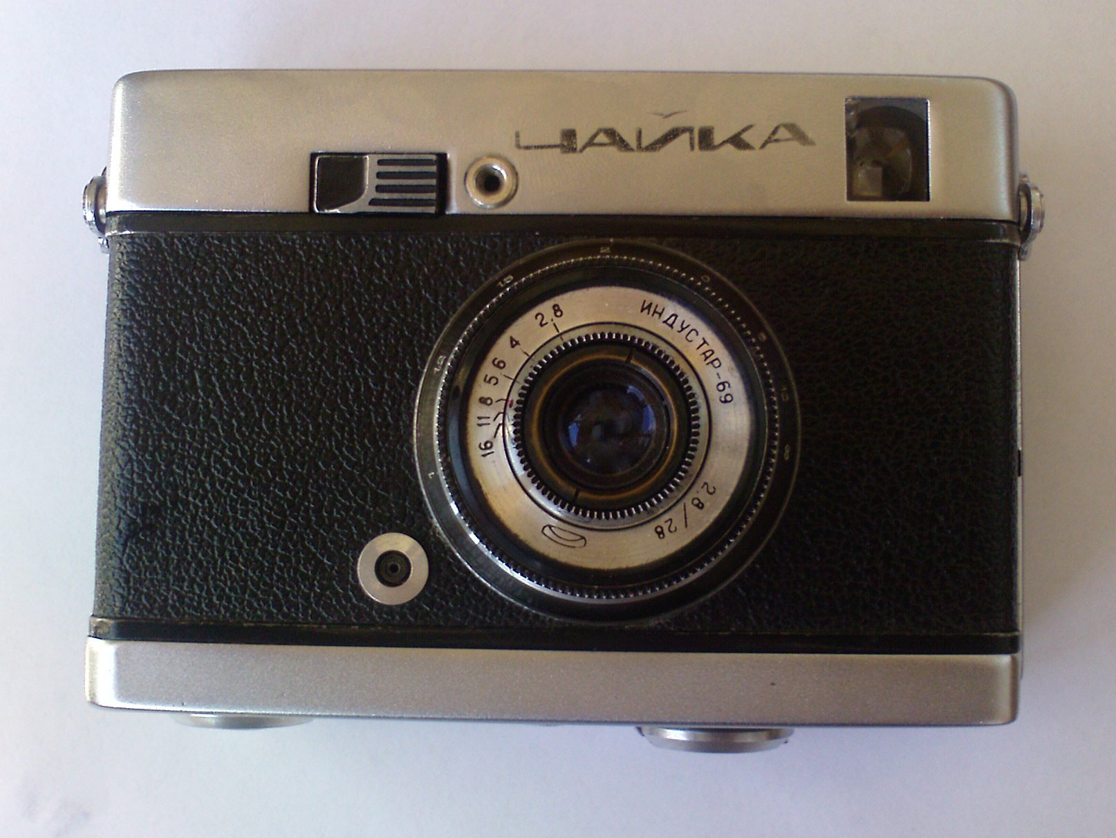 The first edition of Soviet Chaika camera.